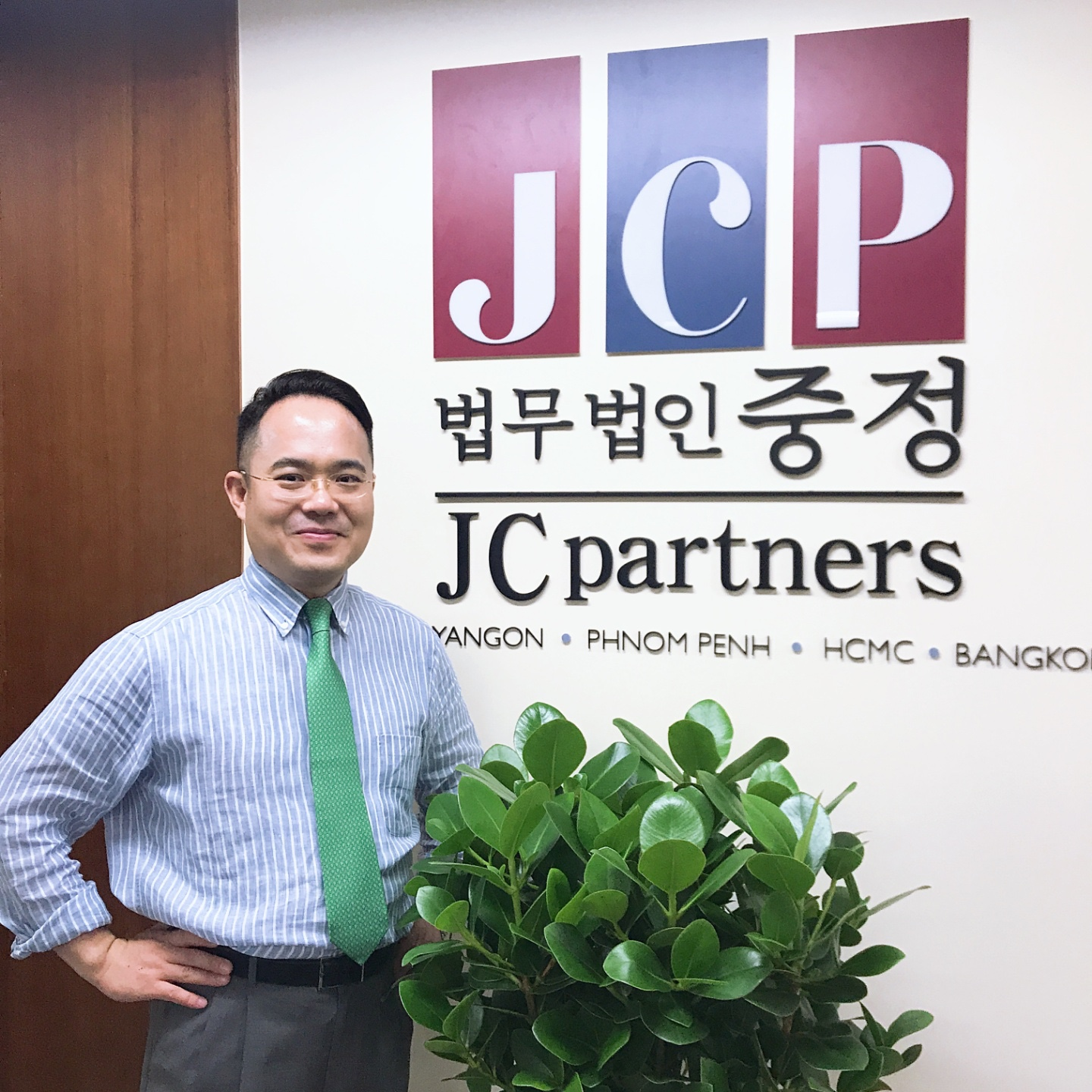 Front office of JC Partners.